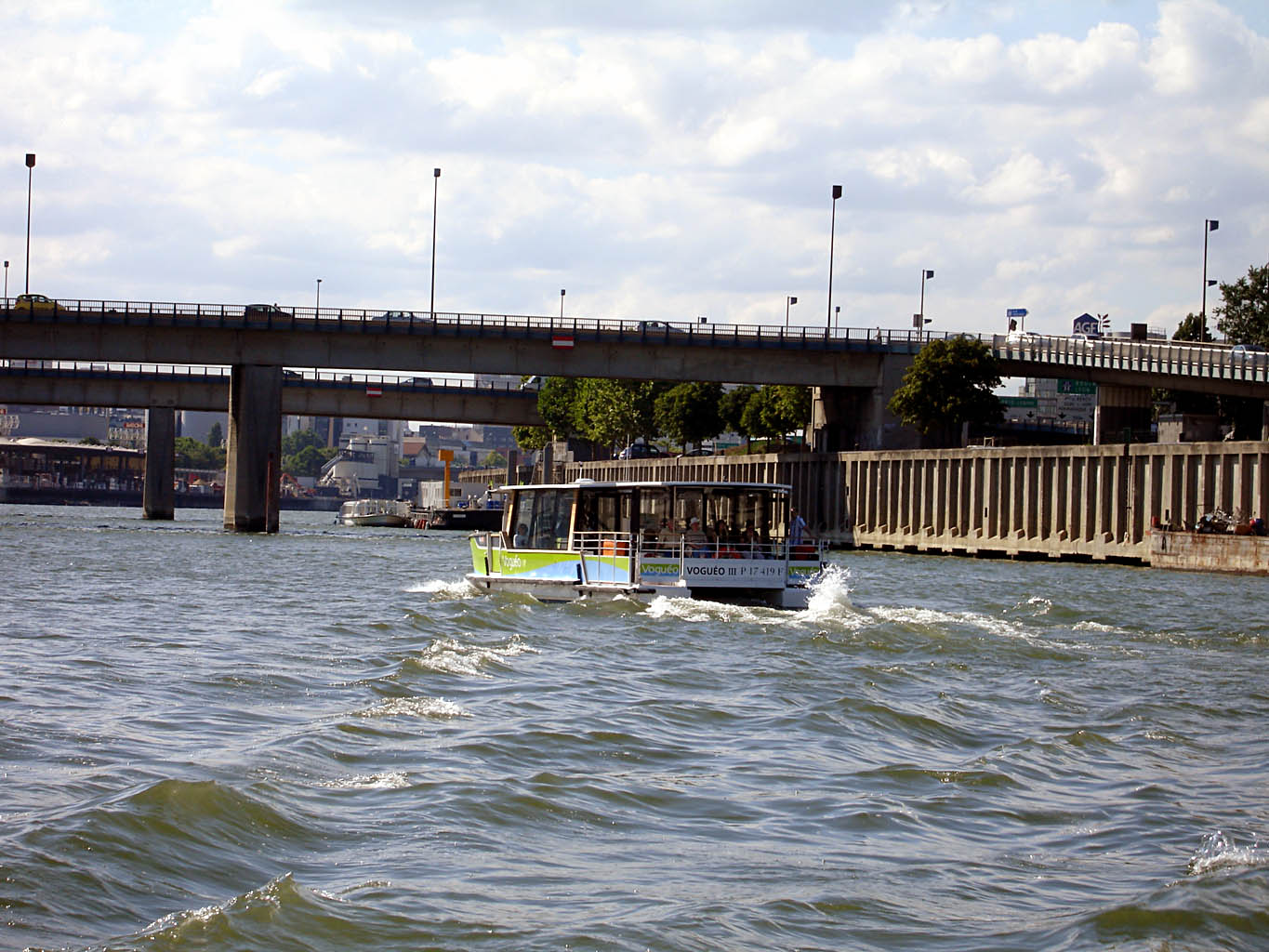 The river shuttle Voguéo, on the river Seine in Paris, France